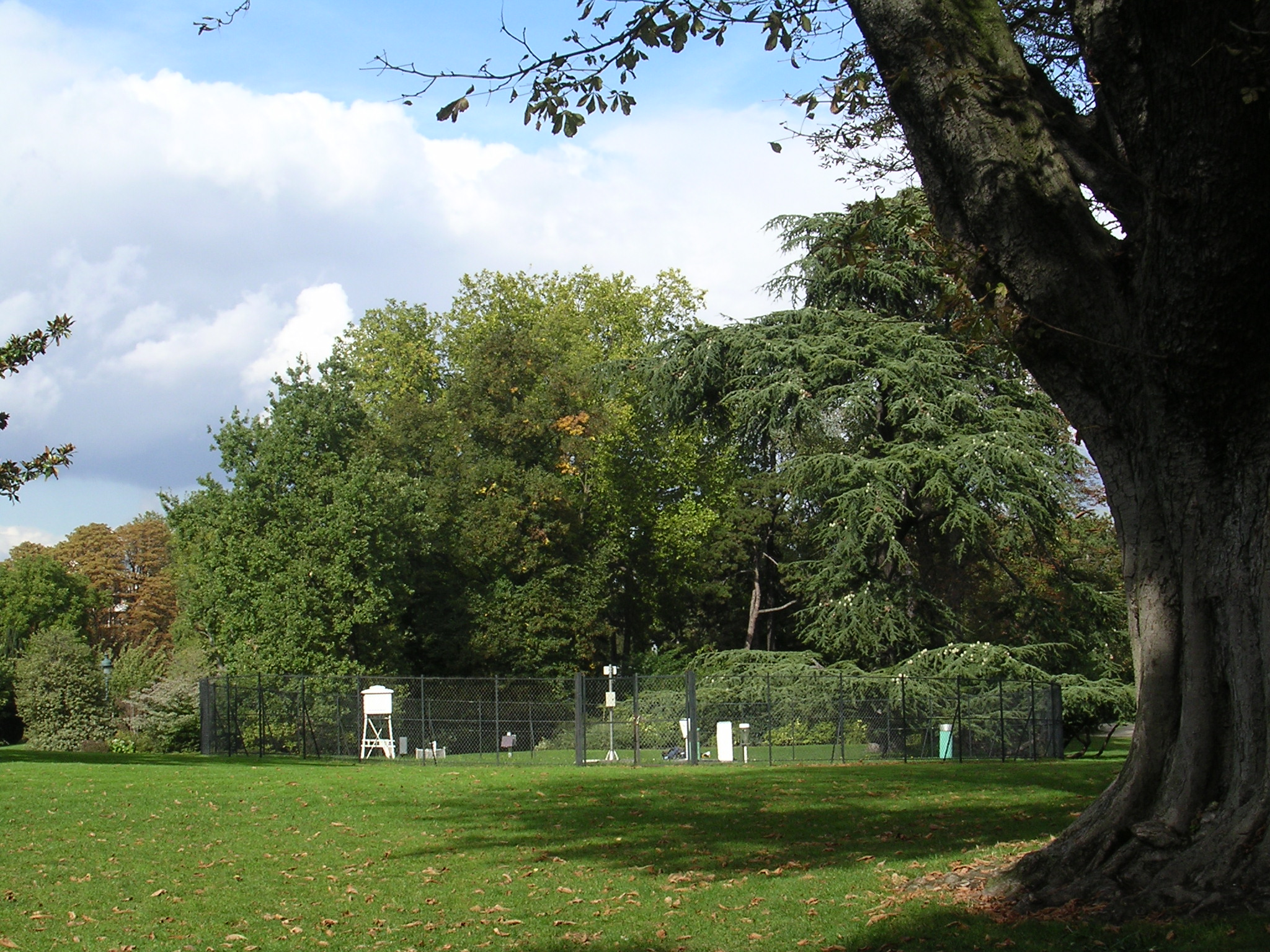 Weather station Parc Montsouris, XIVe arrondissement, Paris, France.